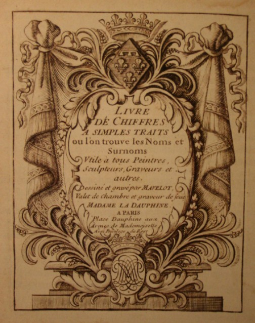 Title page of Charles Mavelot : Livre de chiffres à simples traits, ca. 1680, Paris. (engraved book)